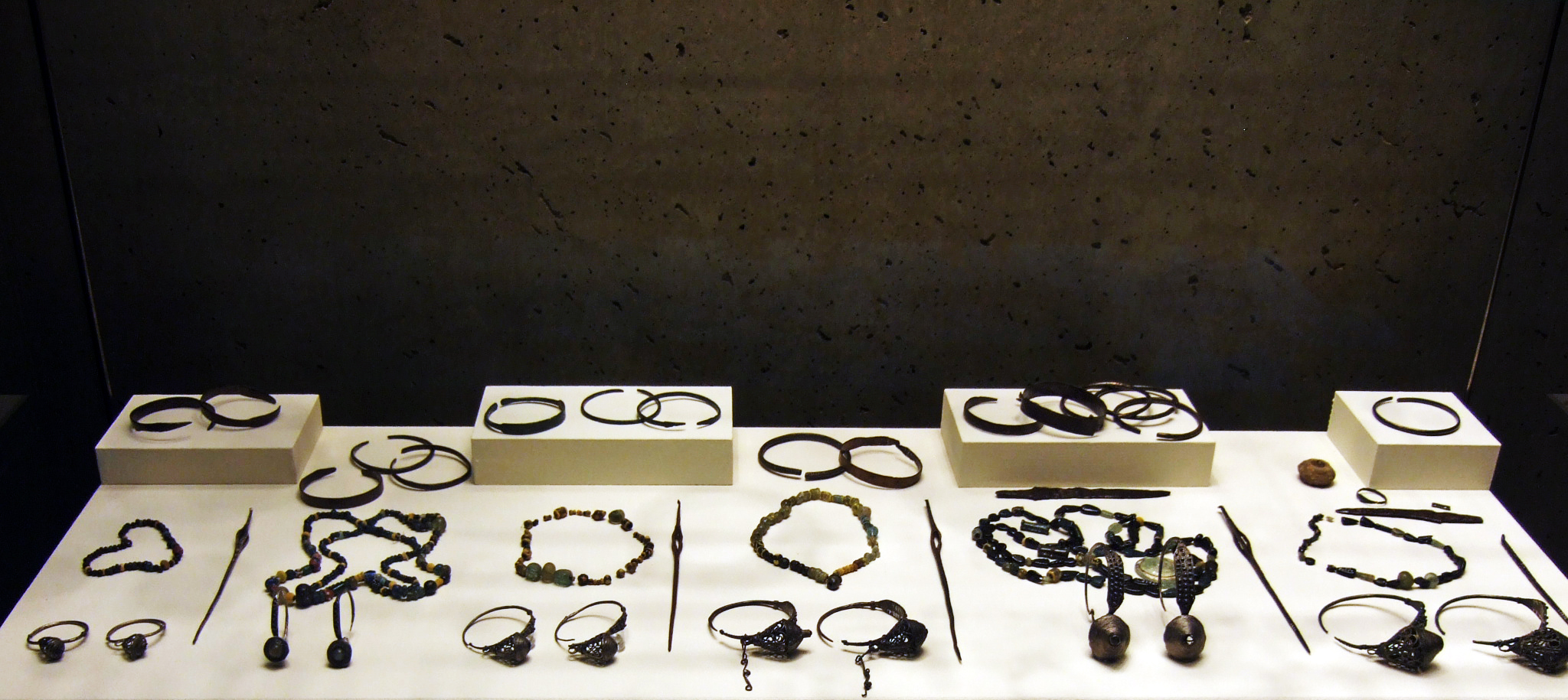 Women's jewellery from the cemetery of Lesencetomaj-Piroskereszt Veszprém County, Hungary At present the grave field of Lesencetomaj-Piroskereszt is the sole large necropolis of Keszthely culture that has been dug and documented in accordance with modern archeological criteria. Up to now, 1737 burials have been archeologically documented; a total of 1790 graves are preserved. Currently known are the southern, eastern, and western boundaries of the burial ground. In a heretofore unique way, the finds here make it possible to trace the the development of certain artifact types (particularly the shape of earrings) that are characteristic of Keszthely culture. Photographed while on display from 22 August 2008 to 11 January 2009 in the exhibition "Die Langobarden. Das Ende der Völkerwanderung" at the Rheinisches LandesMuseum Bonn. On loan from the Laczkó Dezső Múzeum, Veszprém.